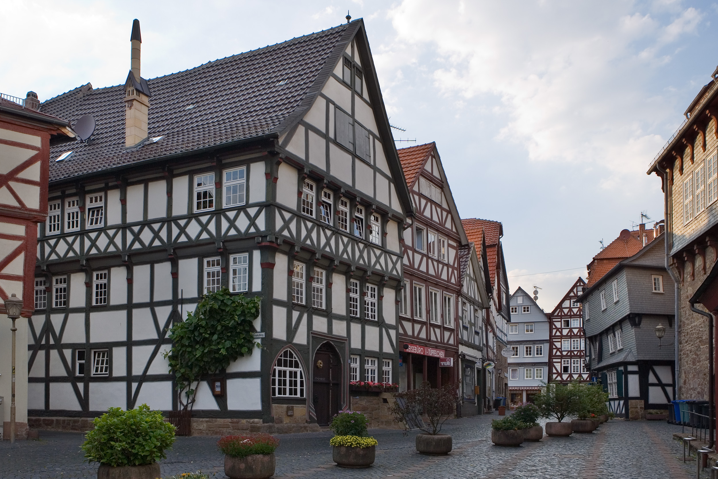 Fritzlar: Zwischen den Kraemen as seen to the north